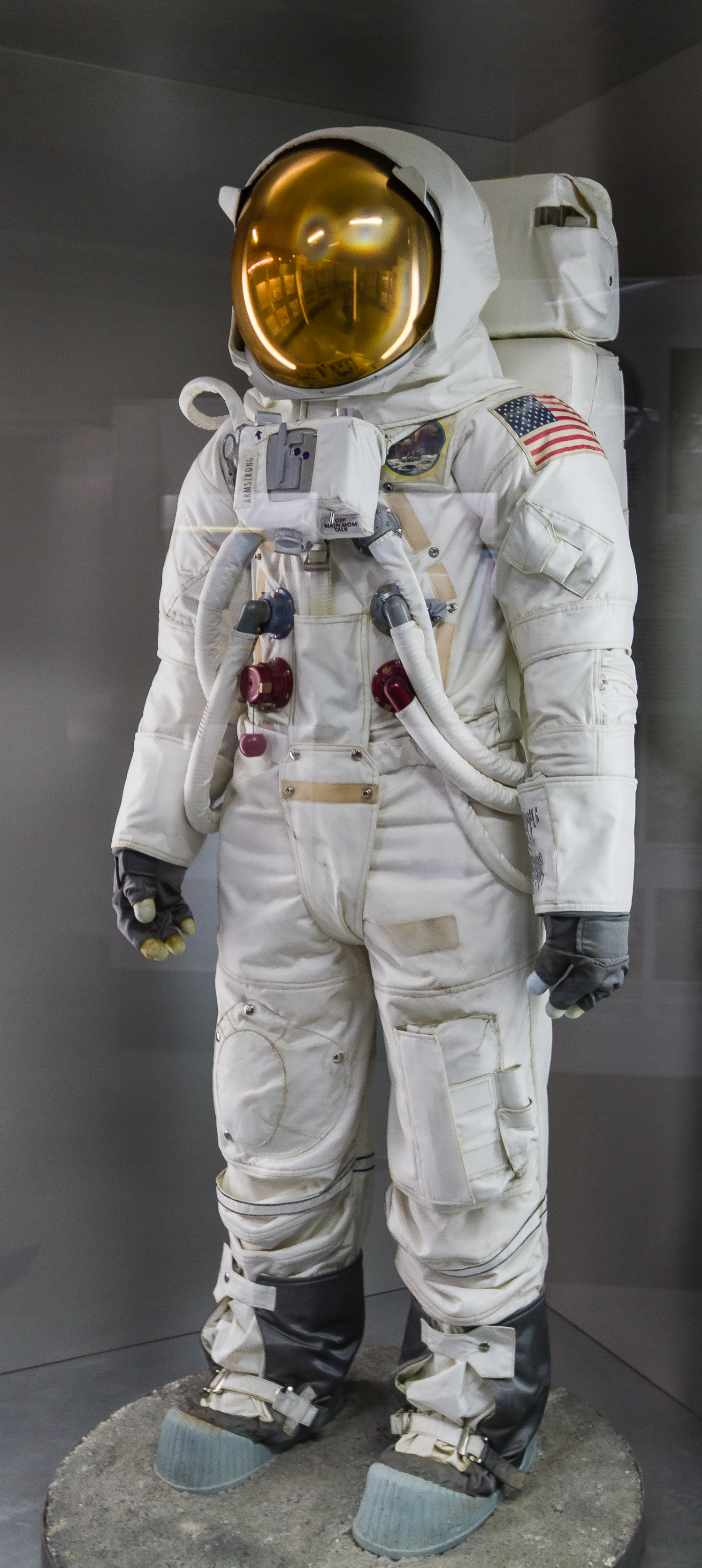 Spacesuit of Neil Amstrong for Apollo 11